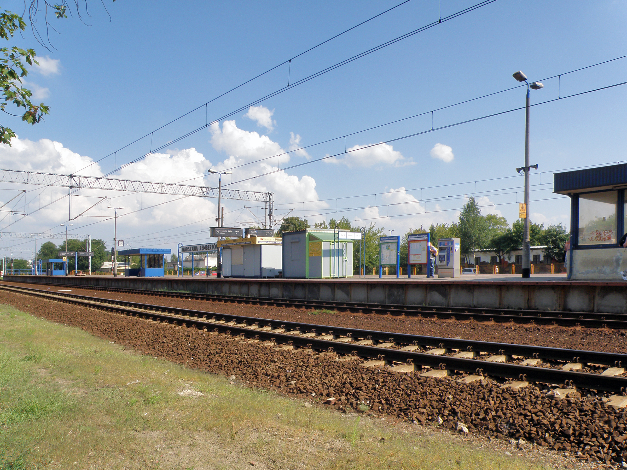 Warszawa Rembertów railway station